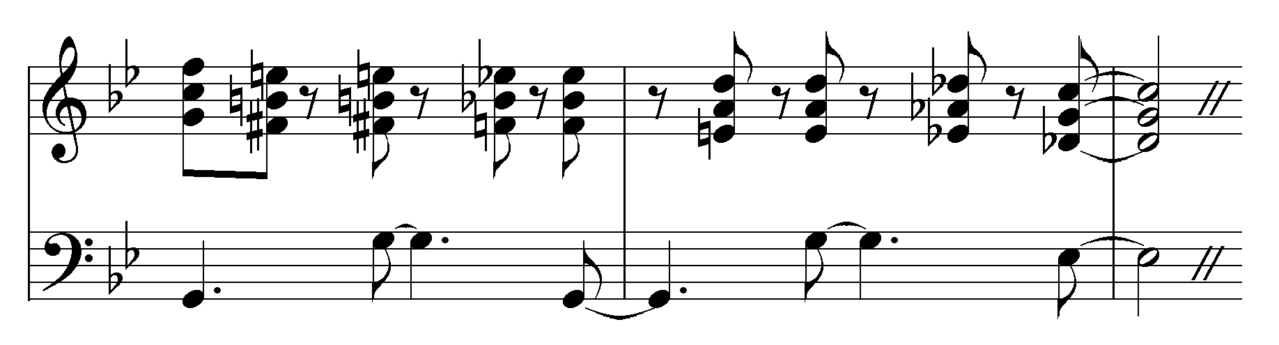 Horn section from Ray Barretto's version of »Amor Artificial« (comp. C.C. Alonso, arr. O. Hernández). File by the uploader.